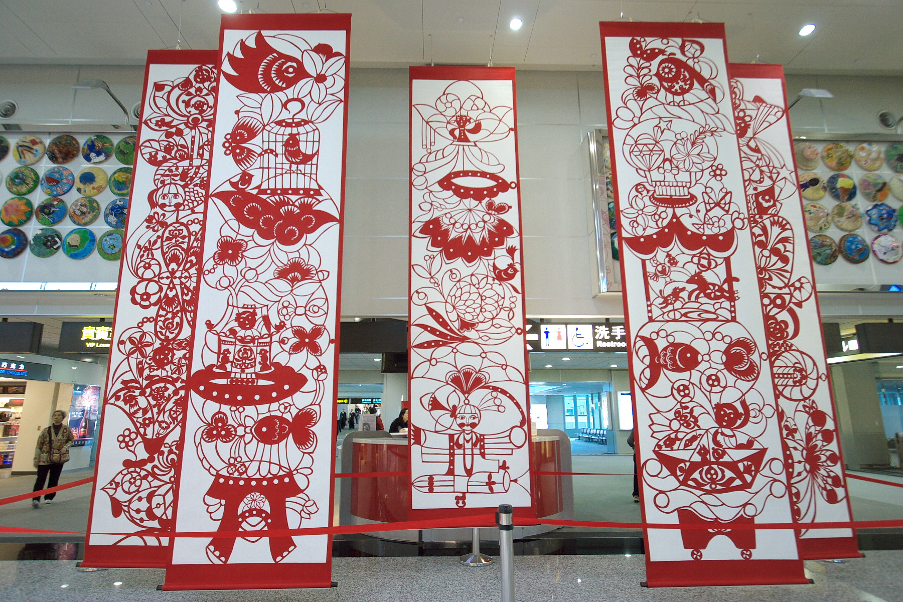 Taoyuan International Airport art display